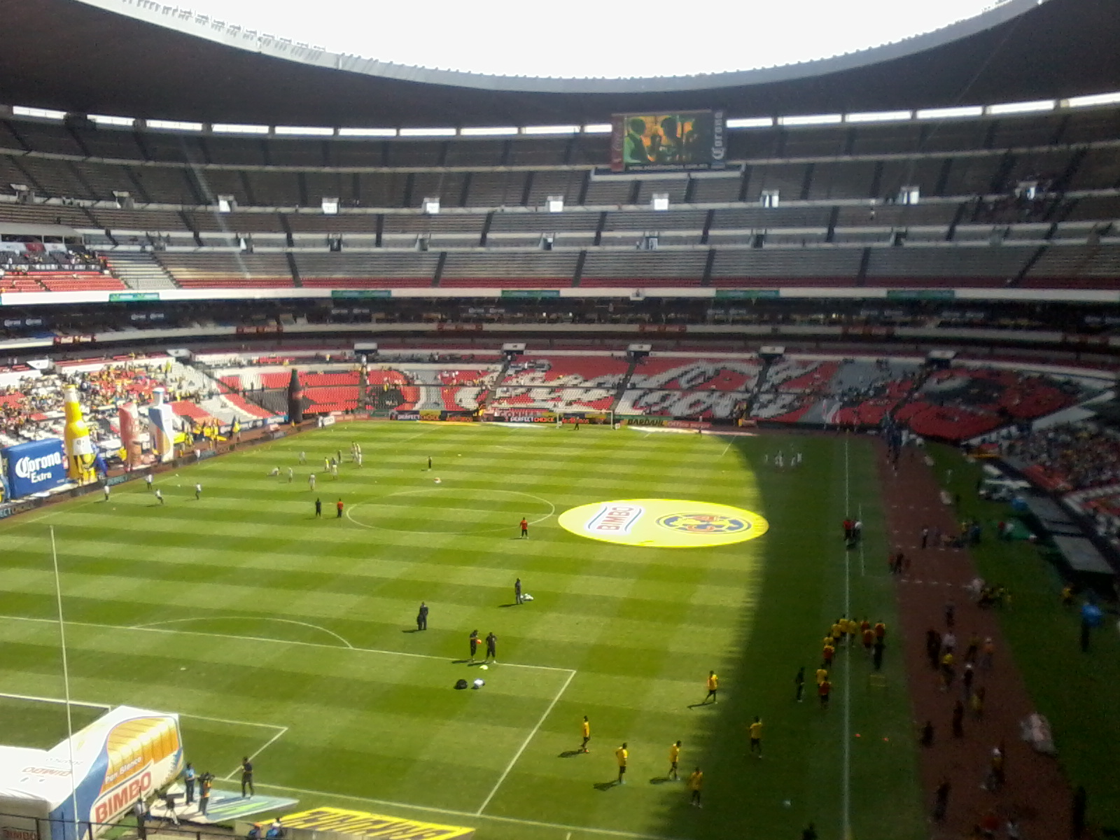 Azteca Stadium Picture taken on 25 September 2011 before the game between Club America and the Tijuana Xolos.